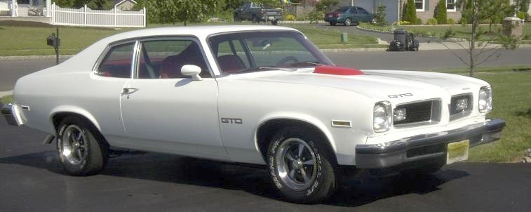 1974 GTO. Notice the GTO emblems, special grilles, Rally II sport wheels, and the functional "shaker" hood scoop.